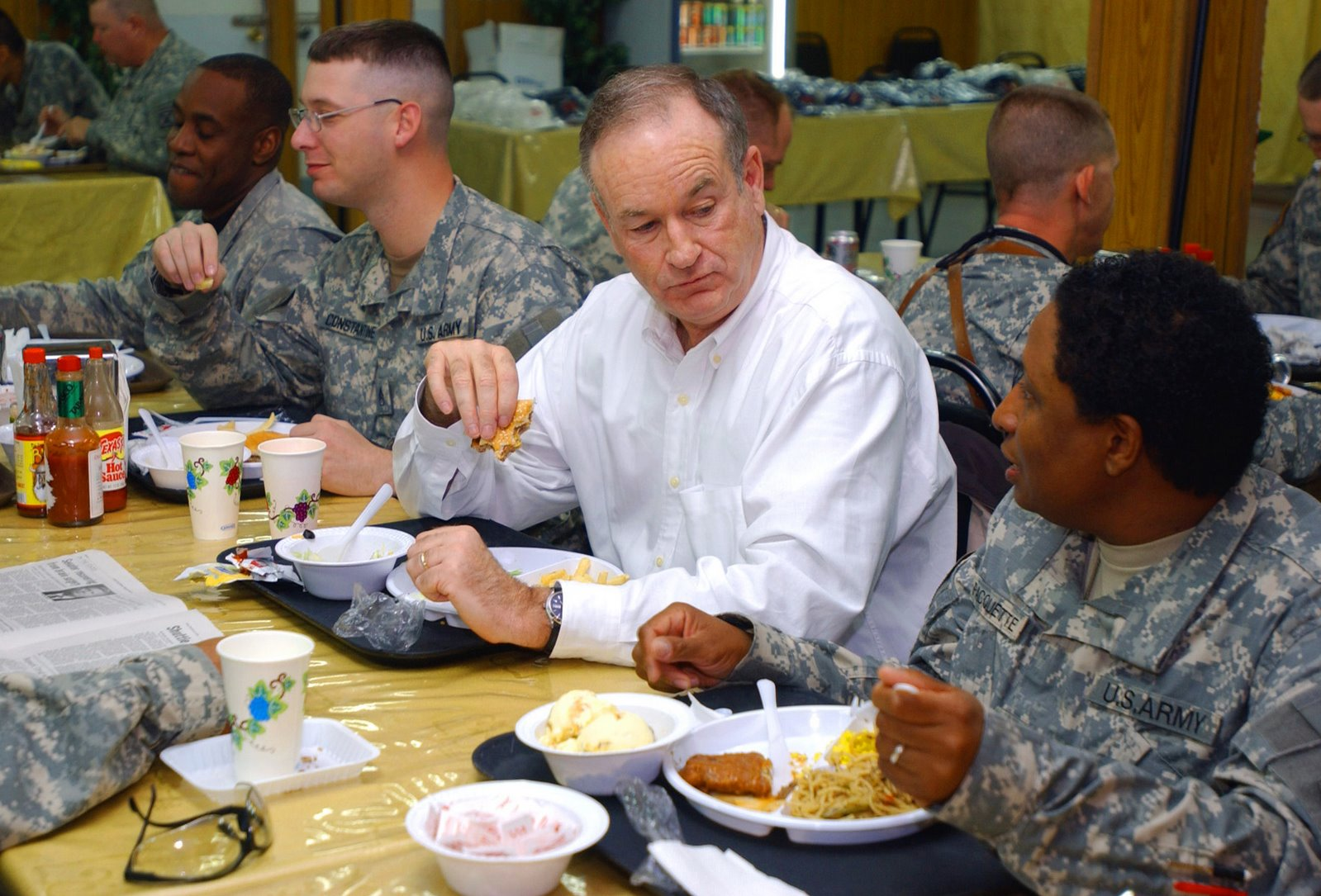 Sgt. 1st Class Vivienne Pacquette, supply sergeant with Headquarters and Headquarters Company, 2nd BCT, talks with radio and television talk-show host Bill O'Reilly at the Camp Striker dining facility Friday.